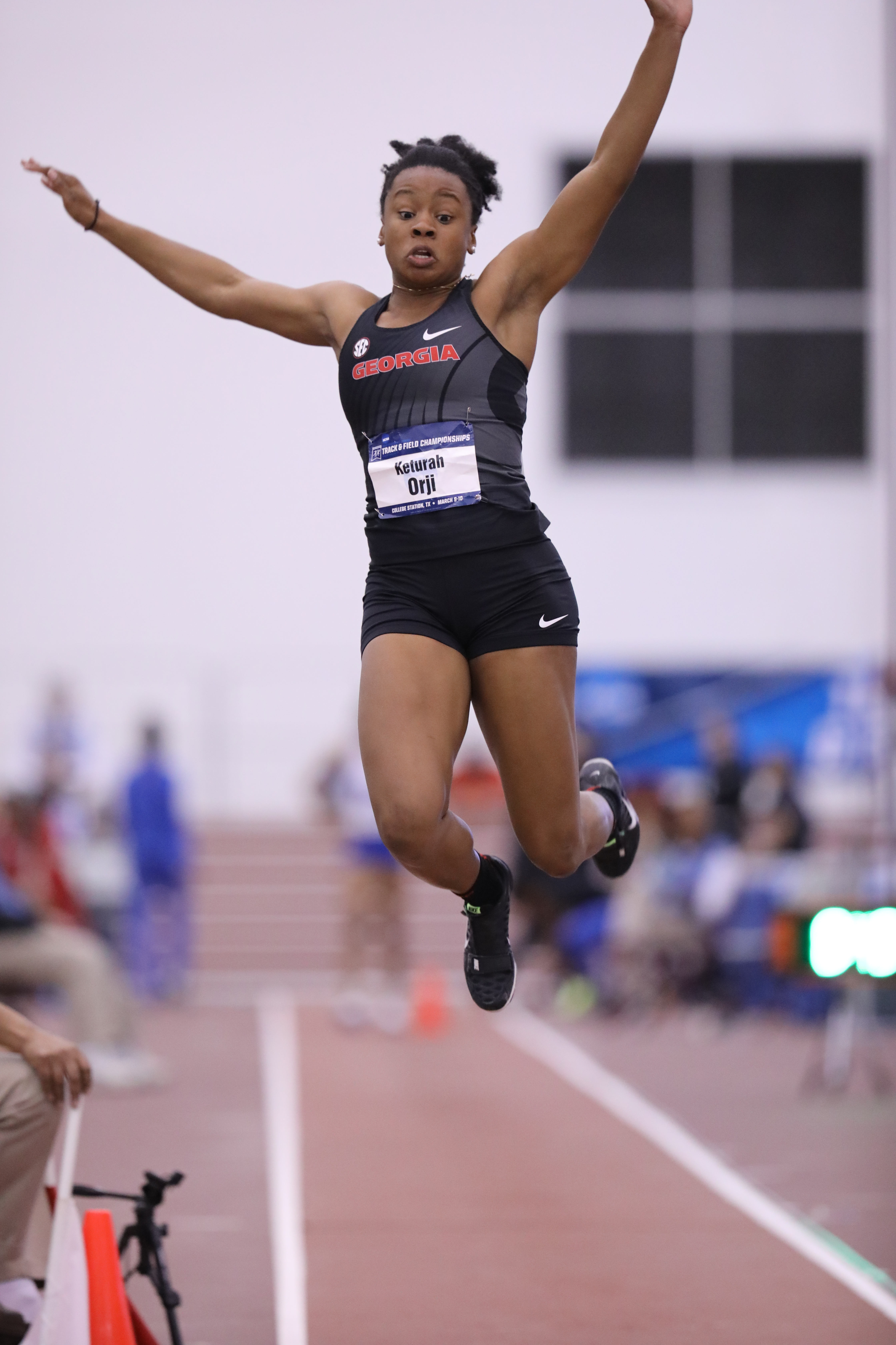 Keturah Orji from a 2018 NCAA meet